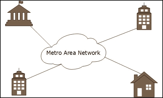 MAN (Metropolitan Area Network): मेट्रोपॉलीटन एरिया नेटवर्क (मॅन)